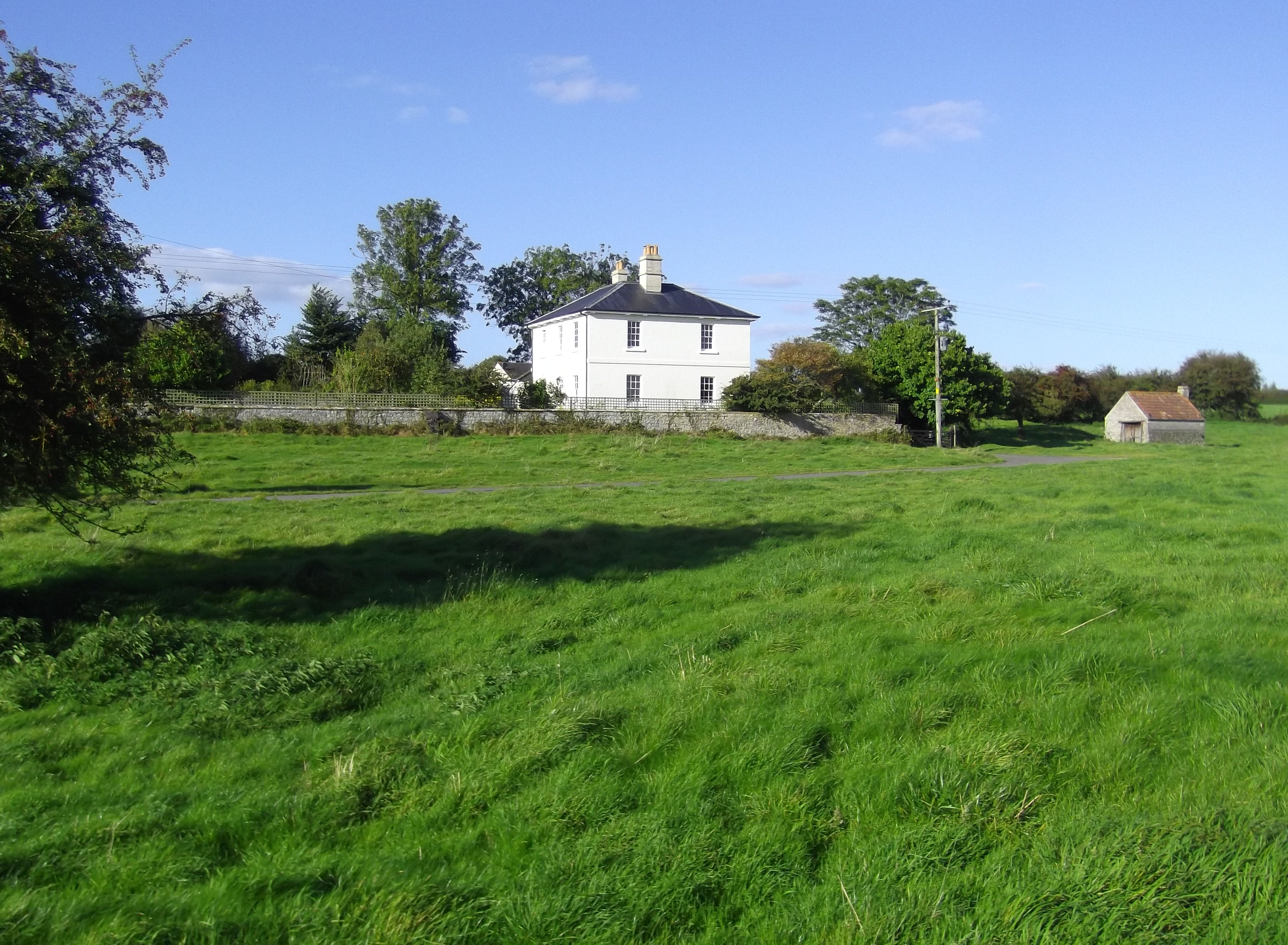 The headquarters building of the Avon and Gloucestershire Railway at Avon Wharf, Keynsham; now a private residence